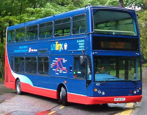 Wilts & Dorset 401 (HF54 KXT), a Volvo B7TL/East Lancs Myllennium Vyking, at Alum Chine on route A.